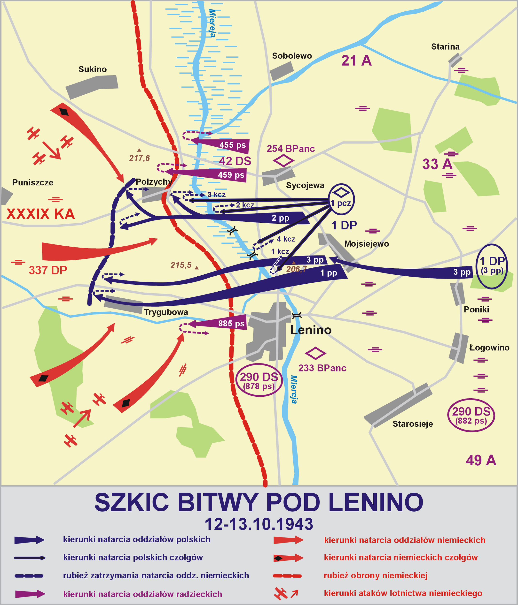 Battle of Lenino (12-13.10.1943)